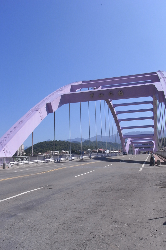 New Bridge Kahsian 2011